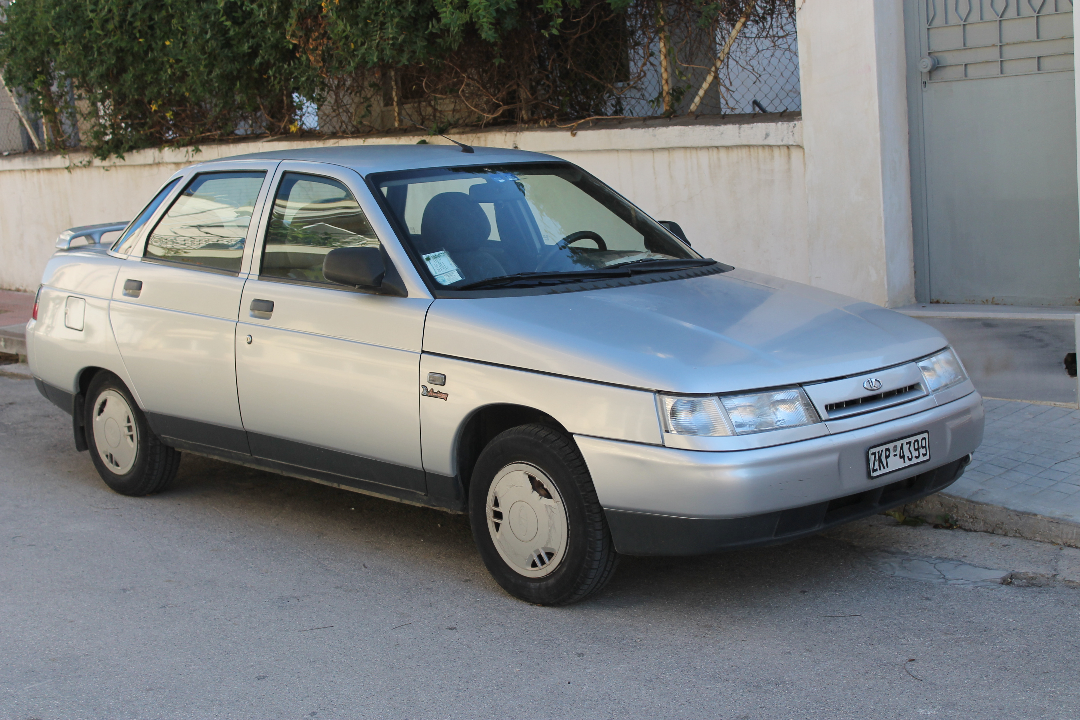 These have some of the worst styling I've ever seen. I suppose this is what you expect in early post-Soviet Russia. Never seen one before, and unlikely to again, unless I visit Russia. Don't believe there are any in the UK, as far as I know... These were produced from 1995 to 2007, but this one is pre-2003, as that's when the new number plate style came in. Looking on the Wiki page, it only mentions a 1.6 model, so is this 1.5 something more unusual? It says Lada Anniversary on the side below the indicator light- this may give an indication of its date. These just look all wrong to me!!! Look at the gap under the bonnet... Credit to its owner though, it's one of the tidiest cars I've seen in Greece!